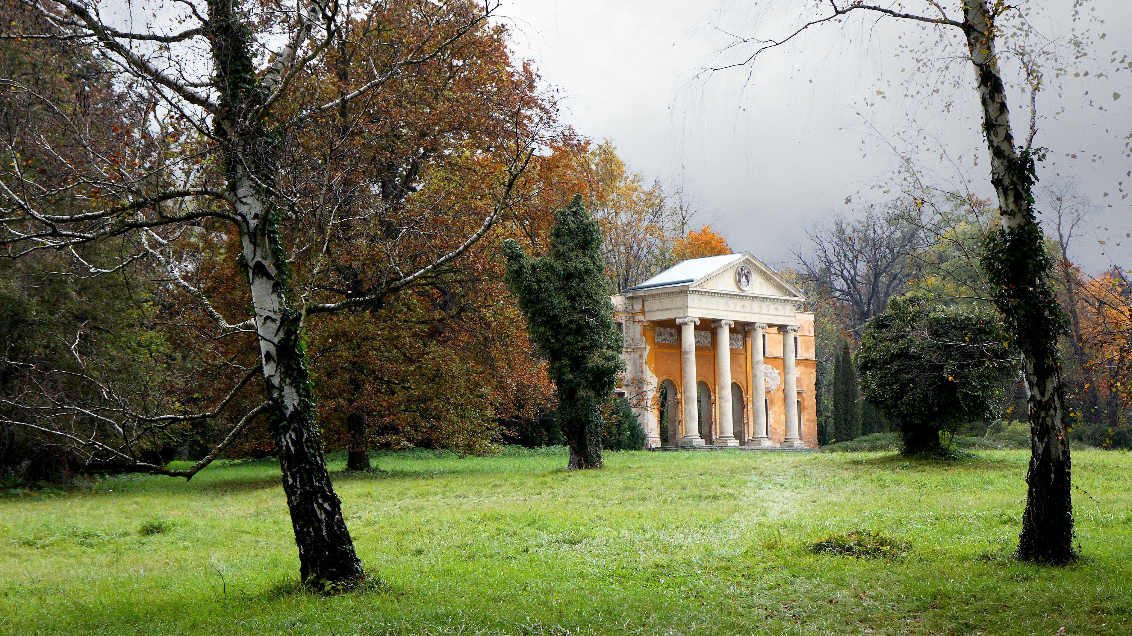 Alcsútdoboz, Fejér County, Hungary. The conserved Portico of the destroyed Habsburg-Palace. Építész: Mihály Pollack. The park today is the Alcsút Arboretum.)